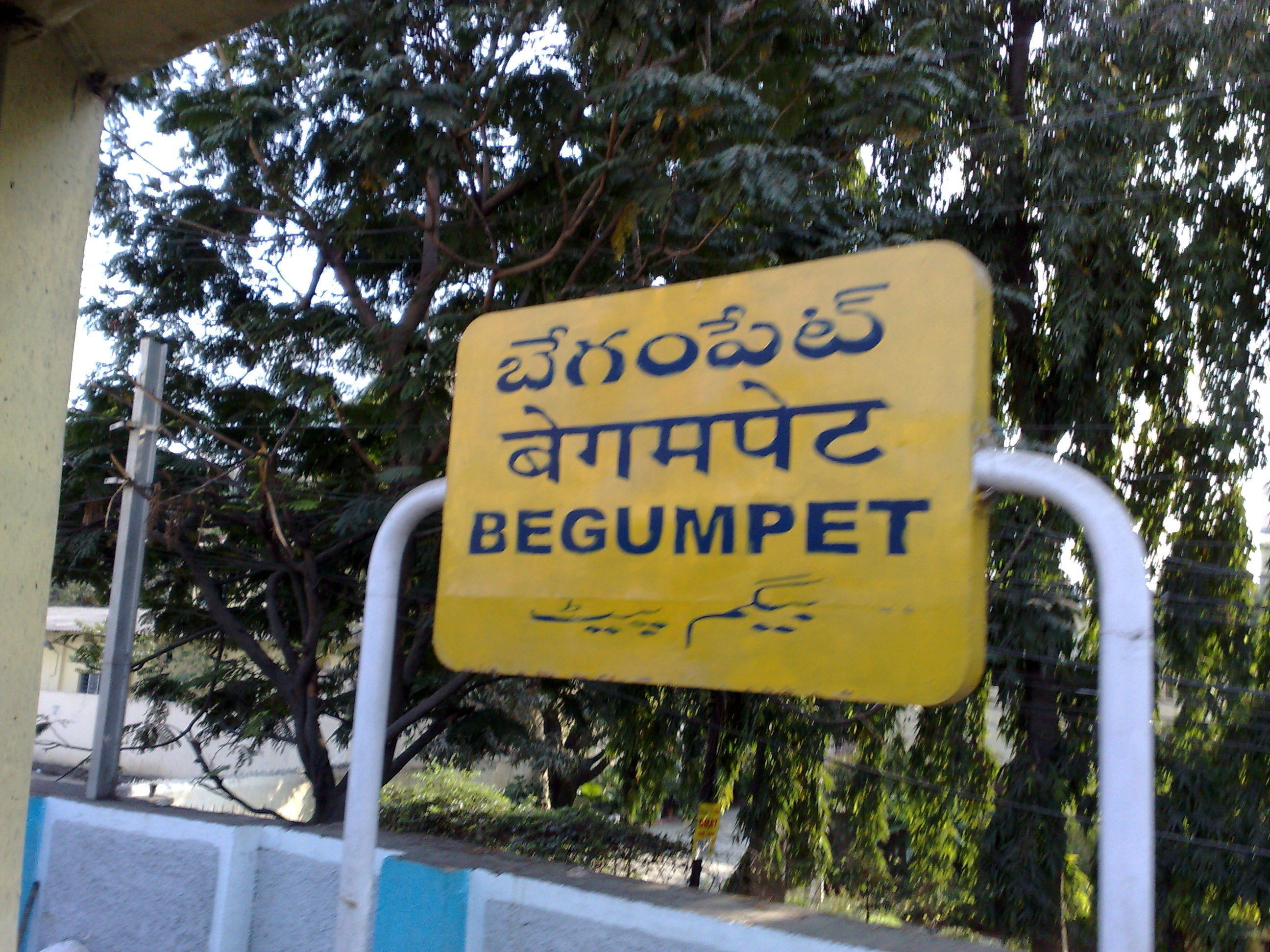 Begumpet railway station - stationboard